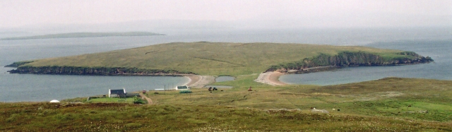 Yell, Shetland. The Ness of Sound is linked to Yell by a tombolo - a double beach - formed when sand is washed in from both ends of a strait. Another of the many ayres (sand or shingle spits/tombolos) typical of Shetland.